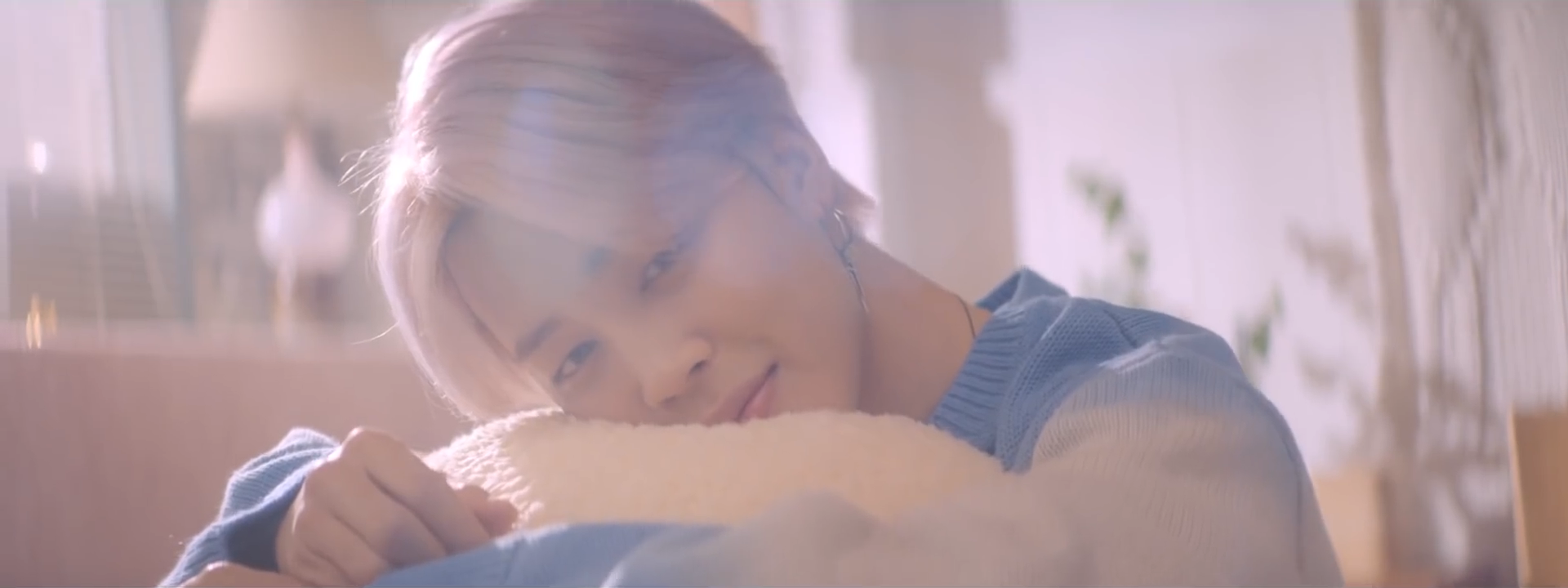 Jimin for the 2019 VT Cosmetics perfume line "Spotlight Yourself L'Atelier"